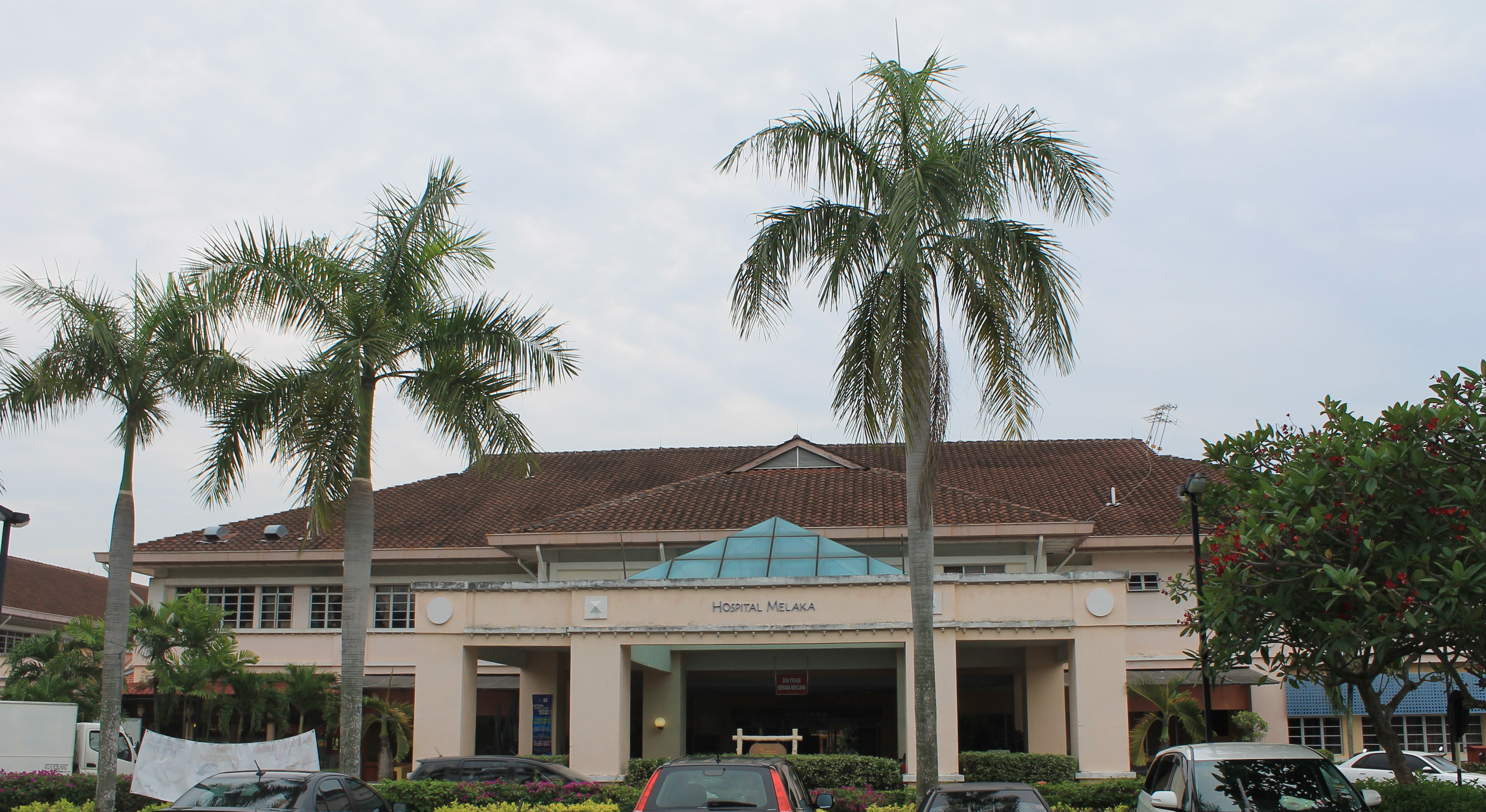 The main building of Malacca General Hospital